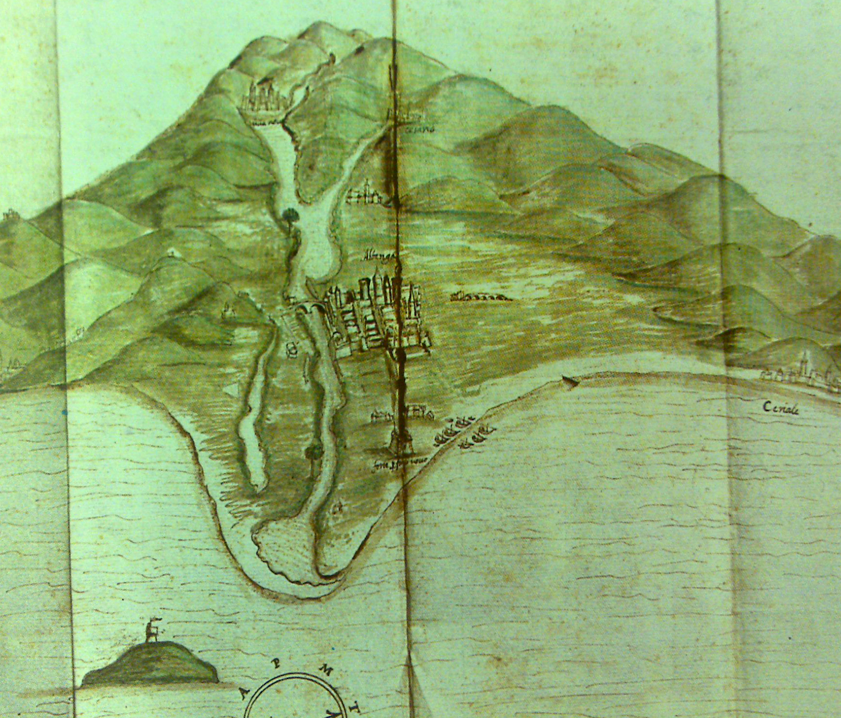 Picture of Albenga and her landscape in 1587, designed by Gregorio Molassana